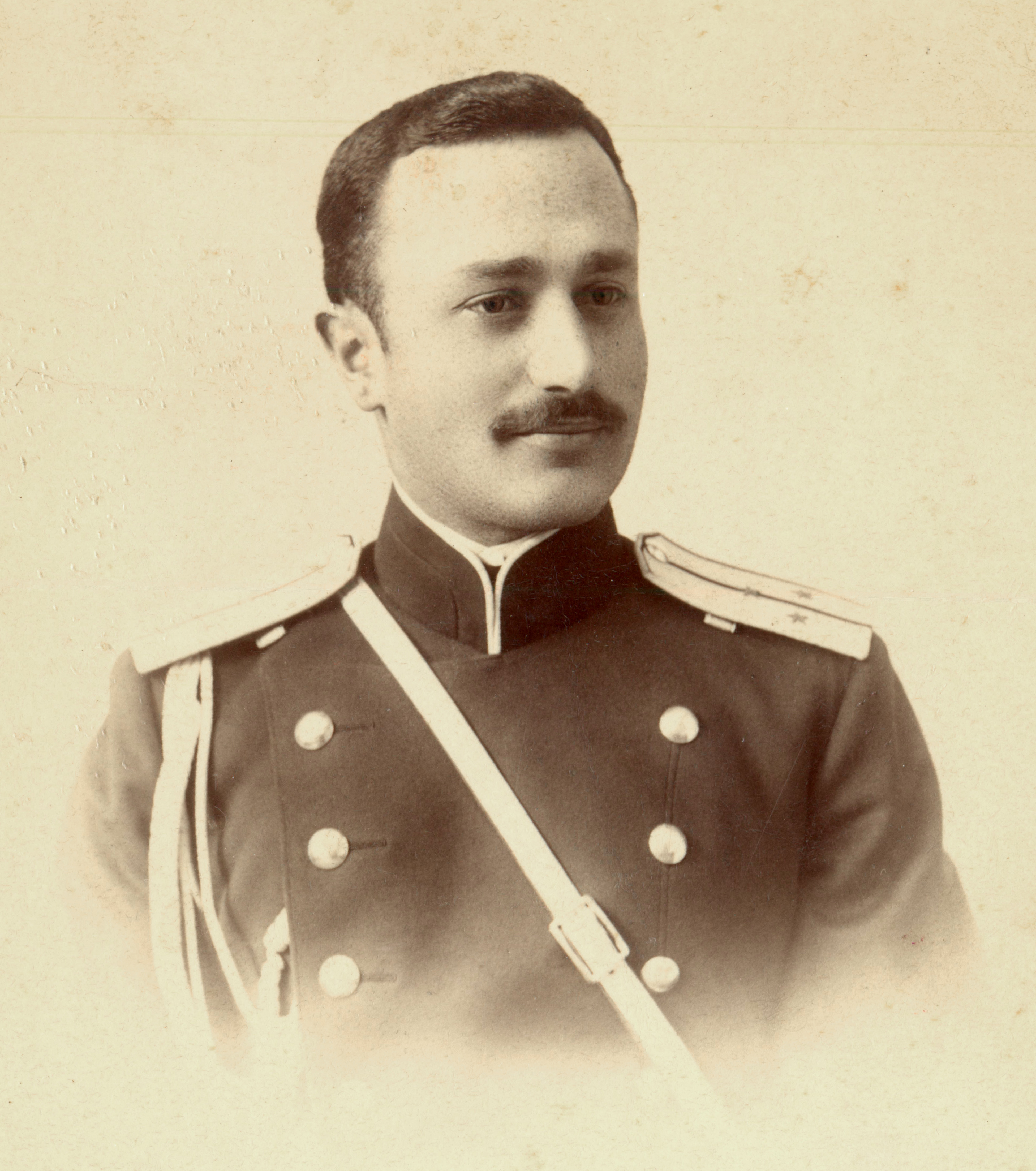 Christophor Araratov (Armenian: Քրիստոփոր Արարատով; Kristop'or Araratyan